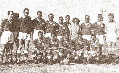 Sport Lisboa e Elvas 1945-1946